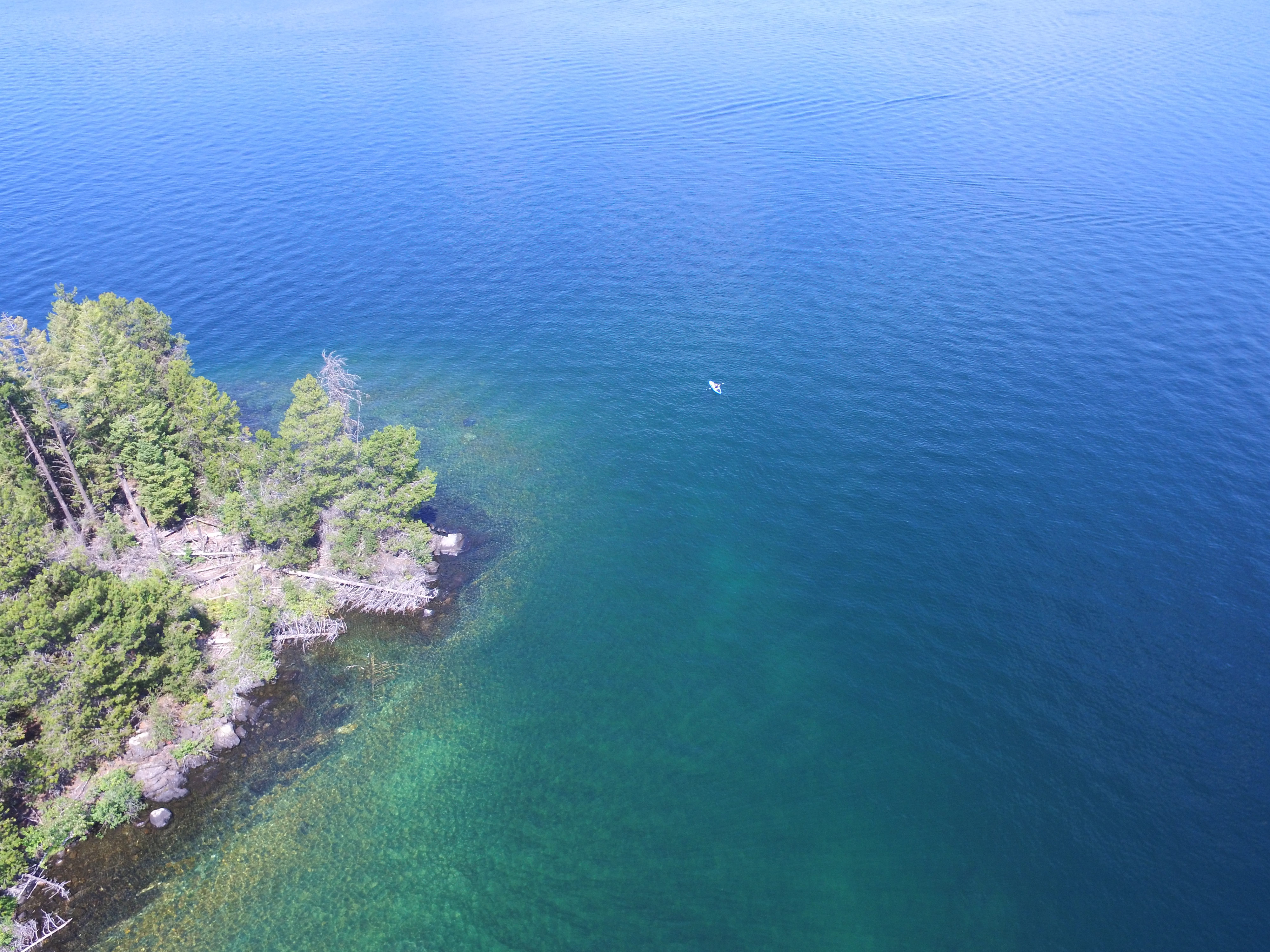 Photo PCox